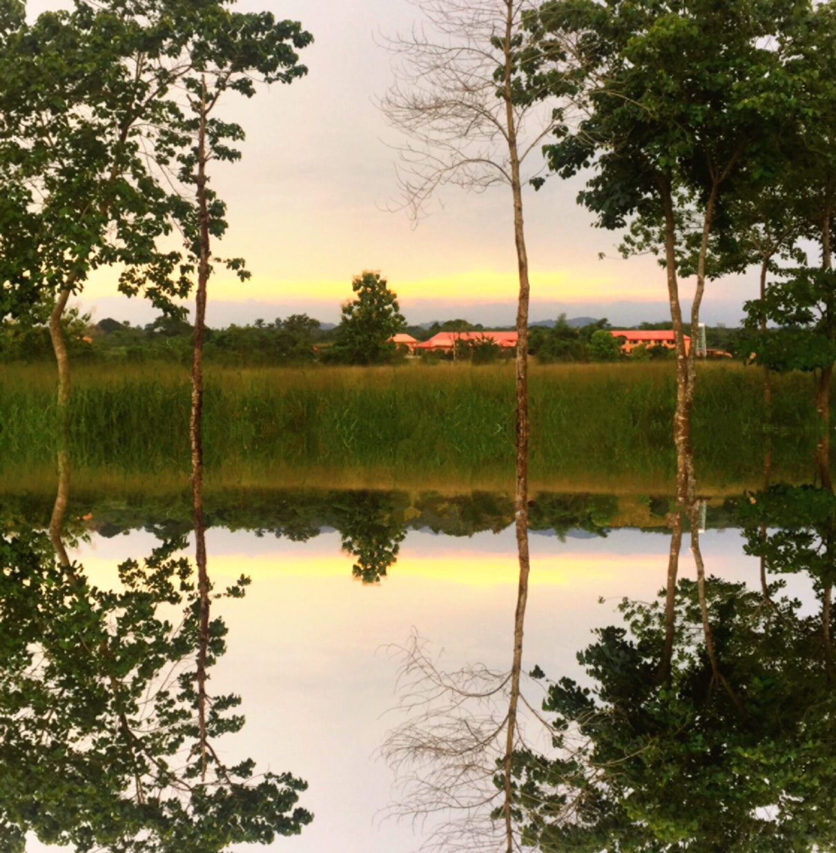 After rainfall in Afe babalola university Ado-Ekiti,Ekiti state, Nigeria. #iphonePhotography #Amateur #Please pick me